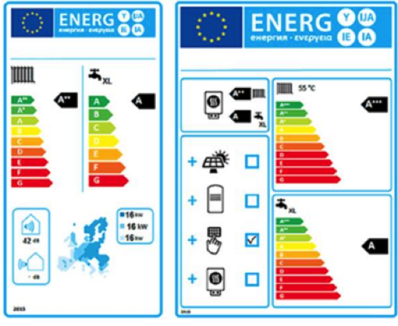 Класифікація будівель за їх енергоощадністю у Європі